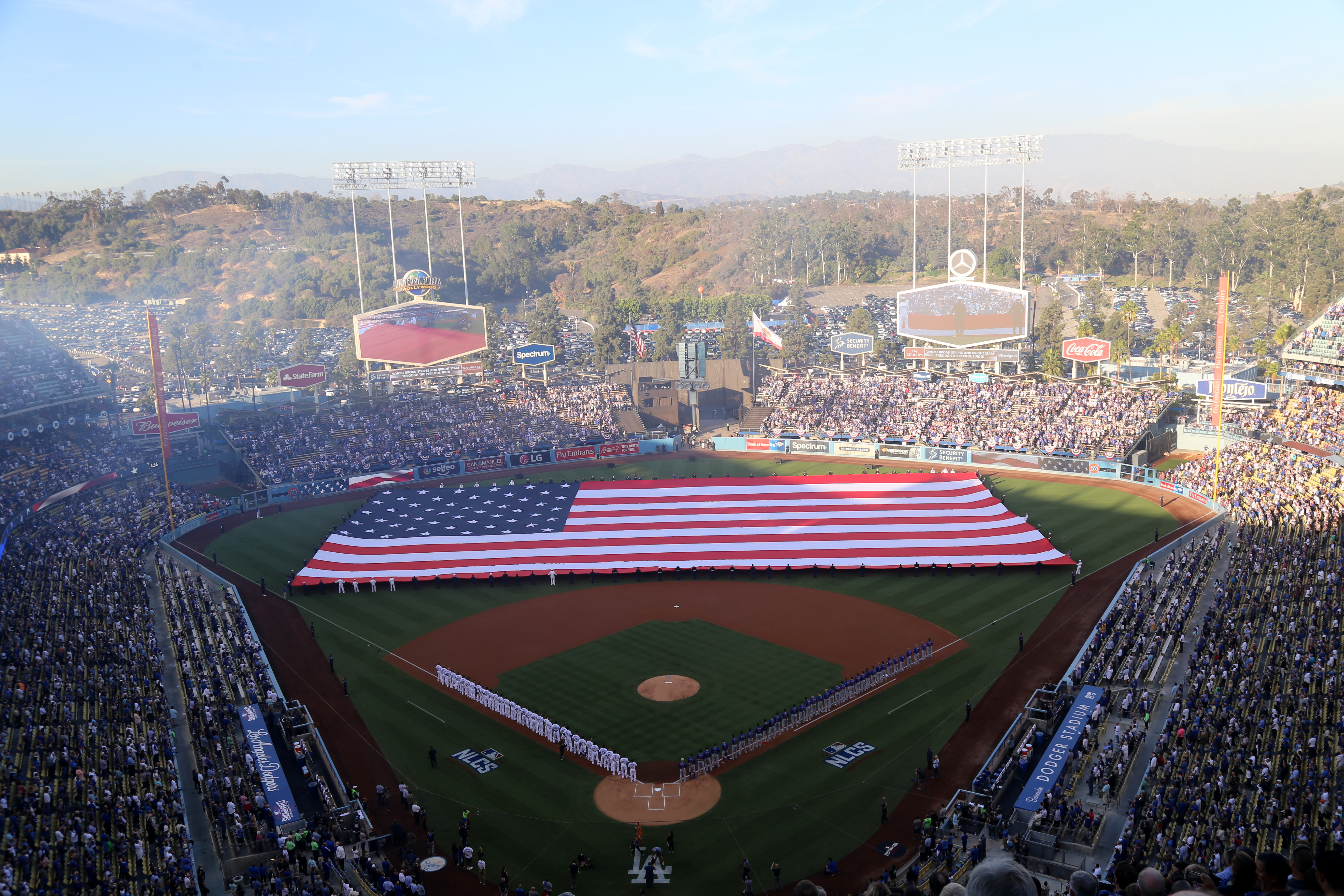 Fireworks go off as the American flag is unfurled prior to Game 3 of the NLCS at Dodger Stadium.